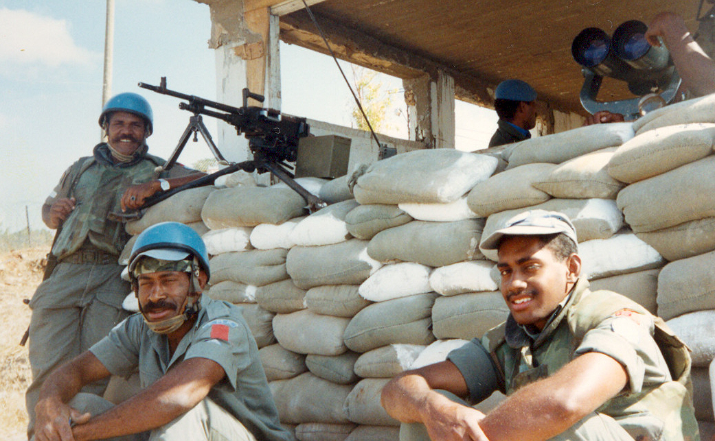 Fijian soldiers of FMR (Force Mobile Reserve) visiting UNIFIL OP during a patrol